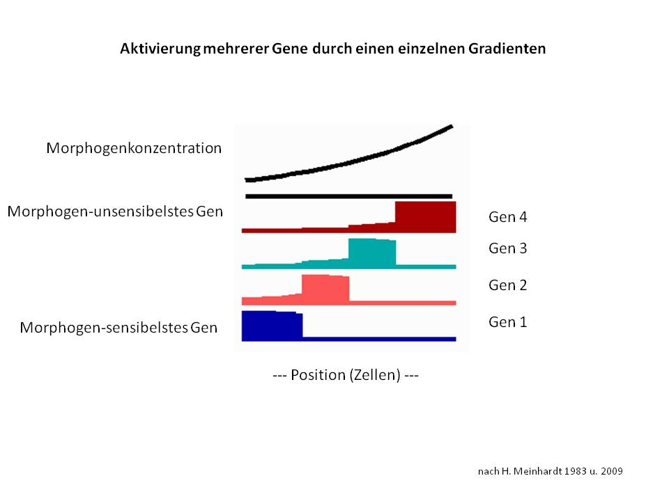 Aktivierung mehrerer Gene durch einen einzigen Gradienten nach Hans Meinhardt